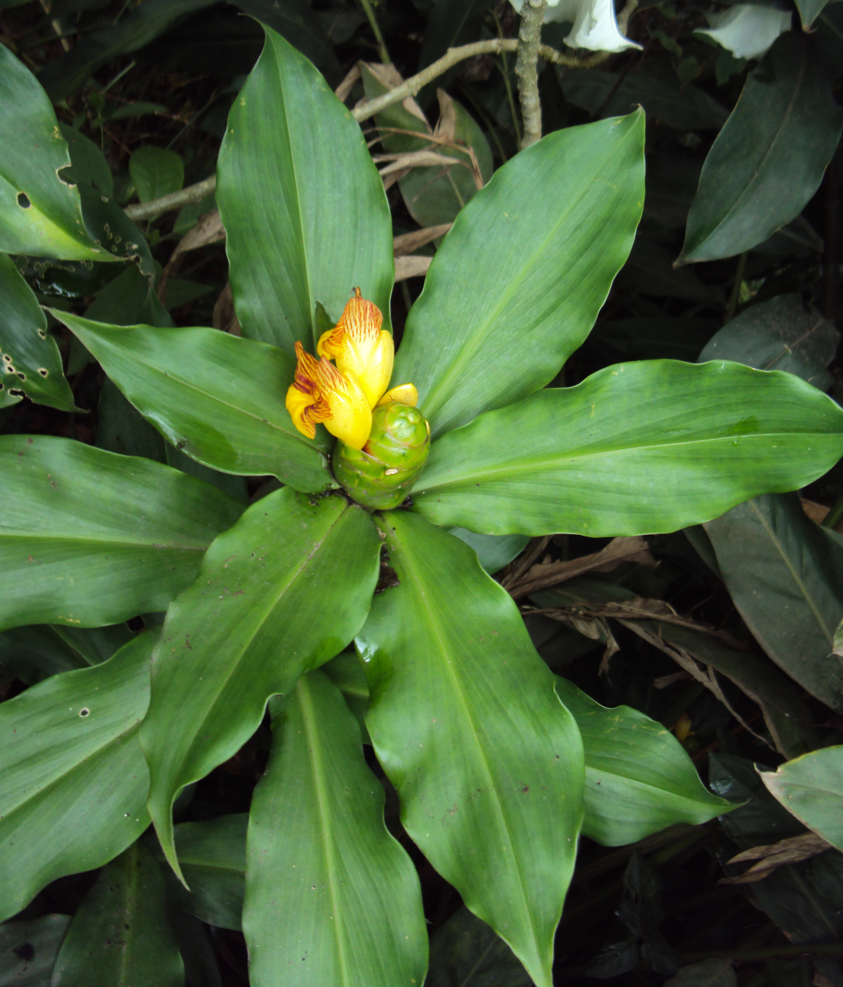 Costus pictus